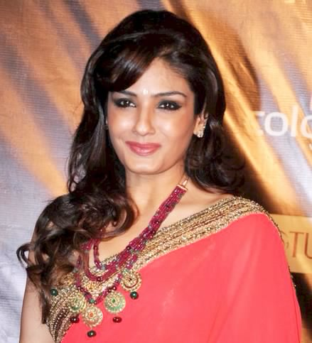 Raveena Tandon at Colors Golden Petal Awards 2012